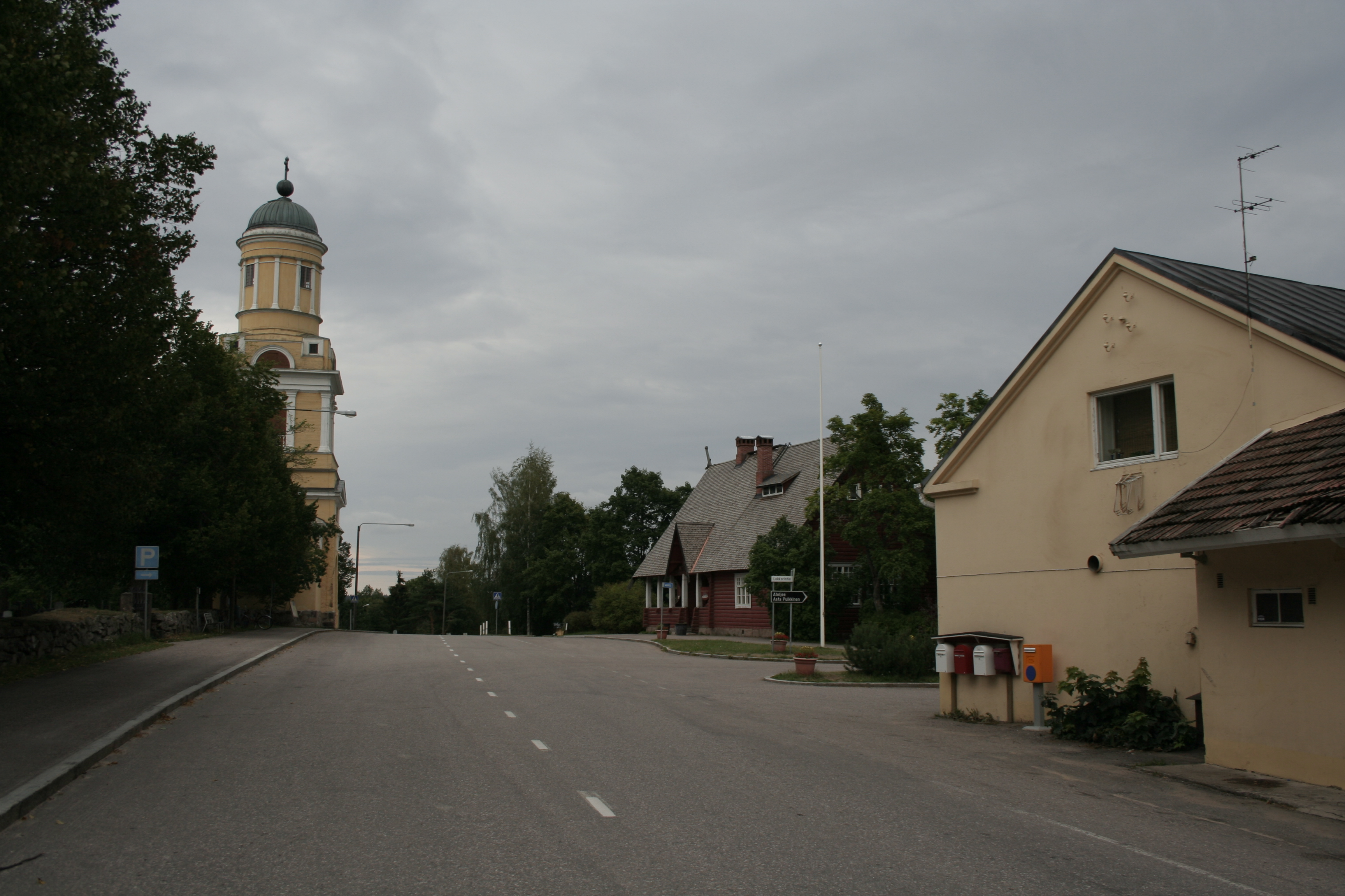 The (historical) main village of Hollola, Finland. The yellow bell tower (1832) can be seen on the left hand side and the old red municipal house (1902) on the right side. The yellow buiding is an old building of the cooperative shop, which is now part of the Sale shop chain belonging to the S-Group.